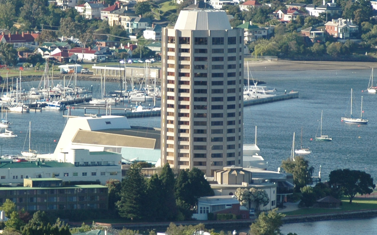 View from Lower Sandy Bay, above Churchill Avenue. The 17-story tower of the Wrest Point Hotel Casino.